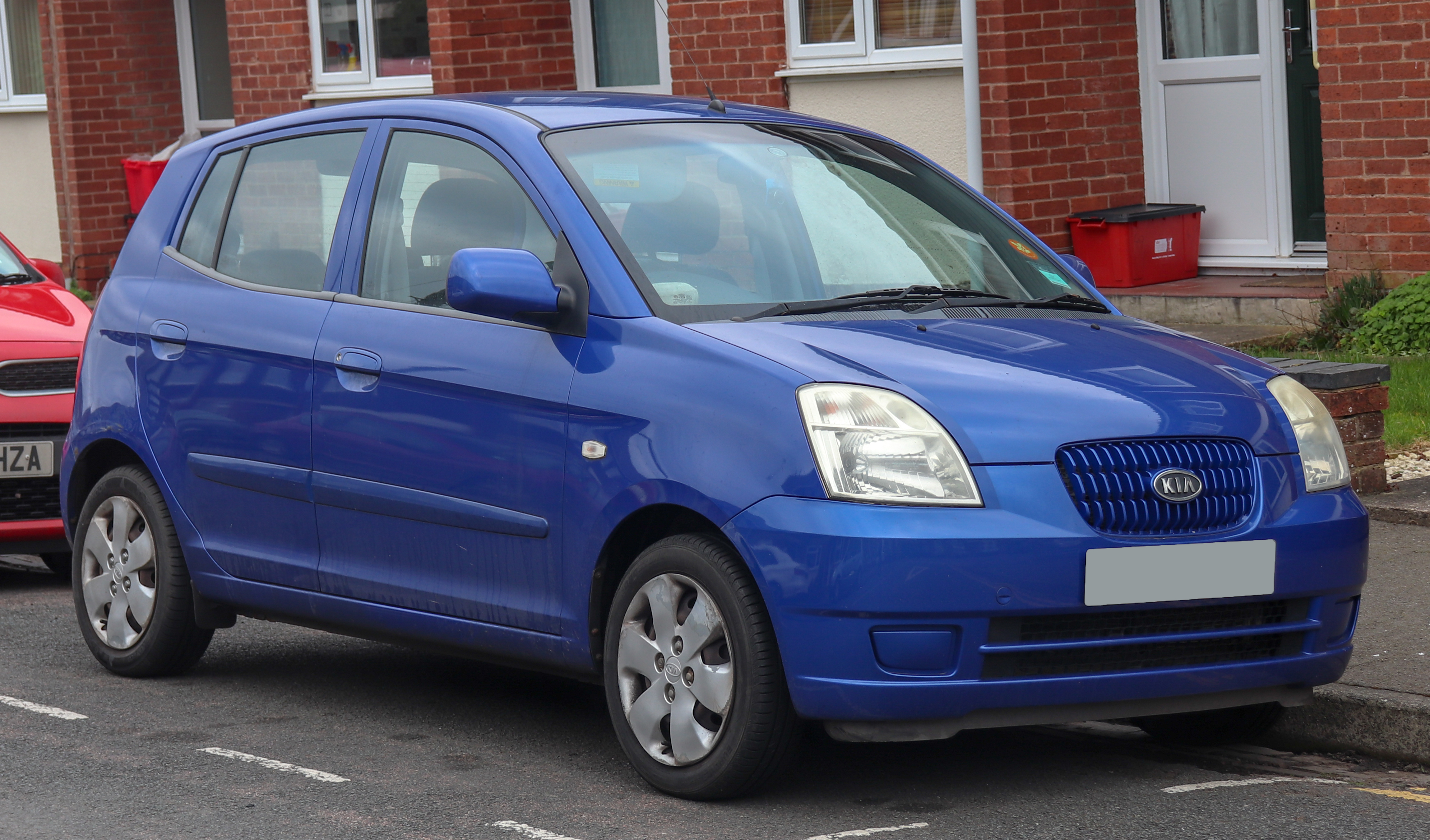 2004 Kia Picanto LX 1.1 Front Taken in Warwick